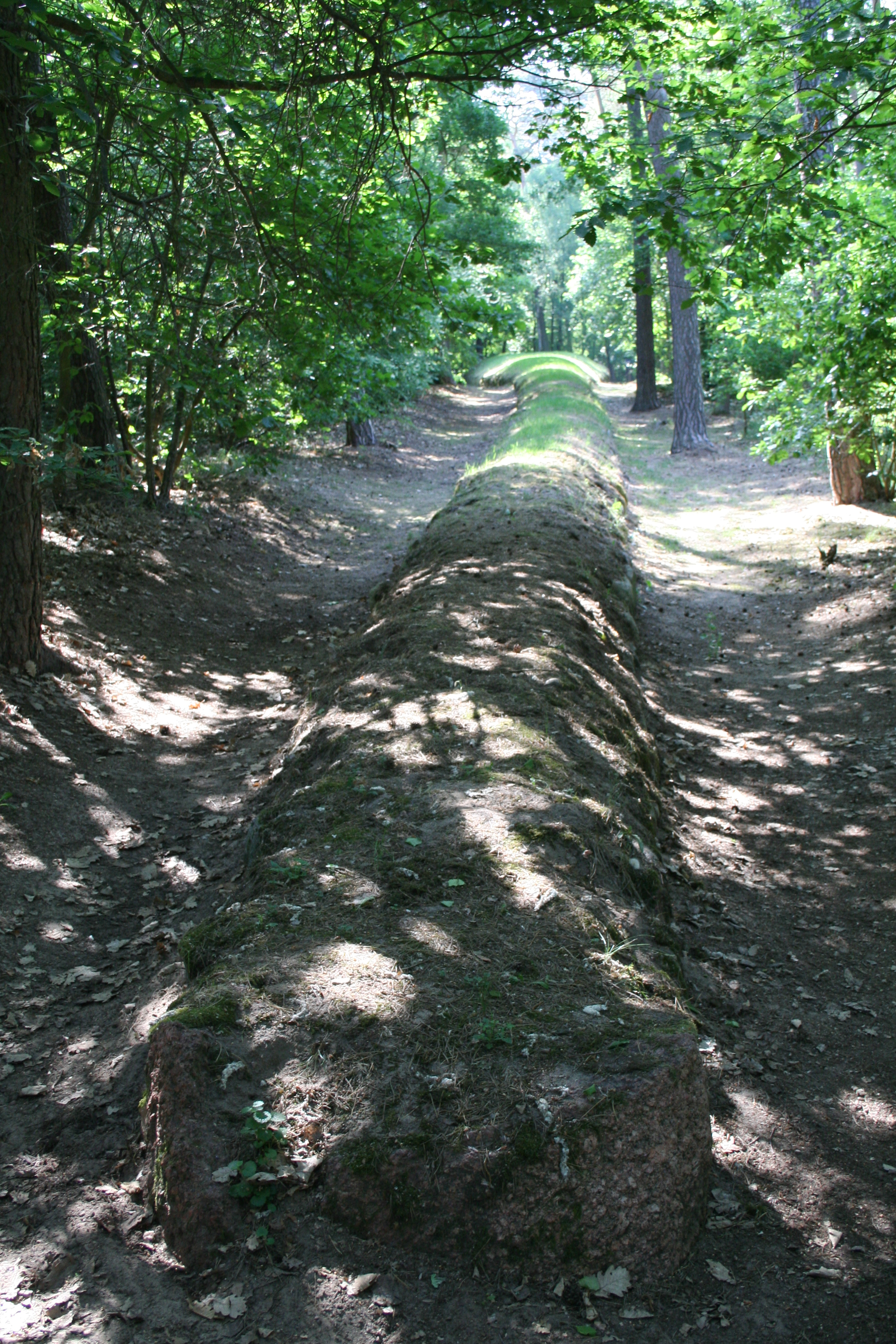 Earthen Long Barrow Wietrzychowice 3